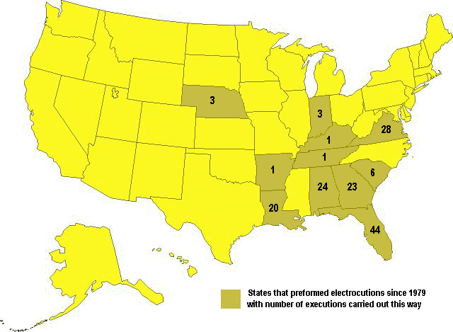 Executions by electric chair preformed in the United States in Post-Furman period (1977-present) by state and bumber